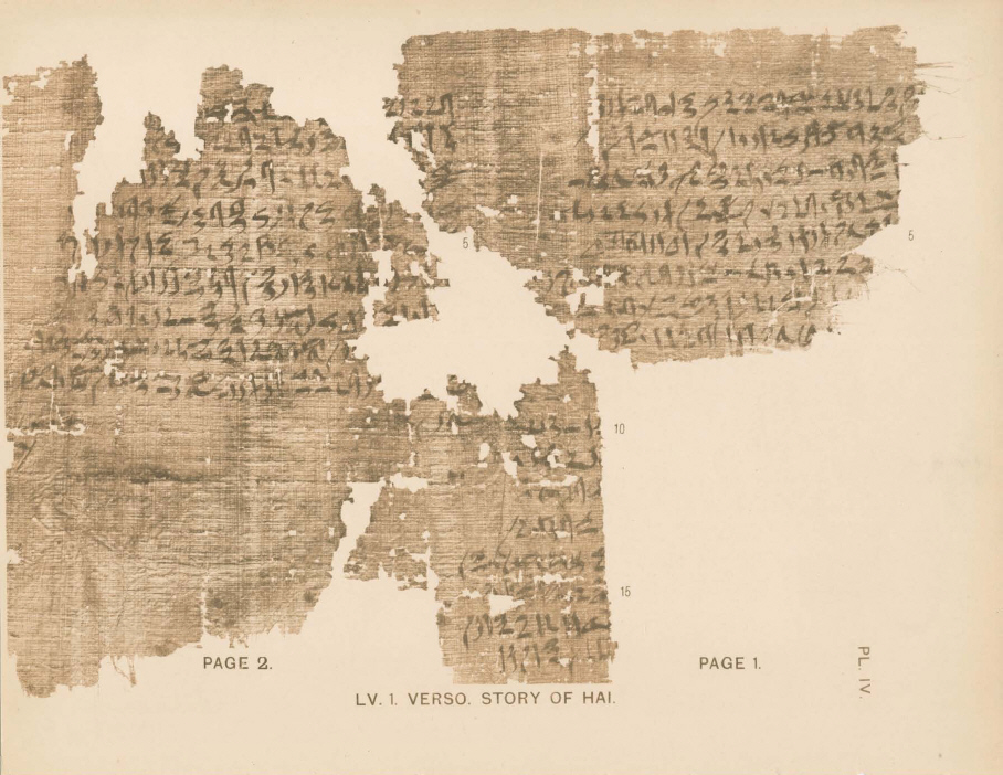 Papyrus Kahun LV. 1 verso with Story of Hai; 12th Dynasty